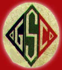 Former Logo of the Gezira Sporting Club in Cairo